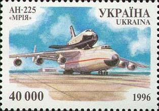 Stamp of Ukraine